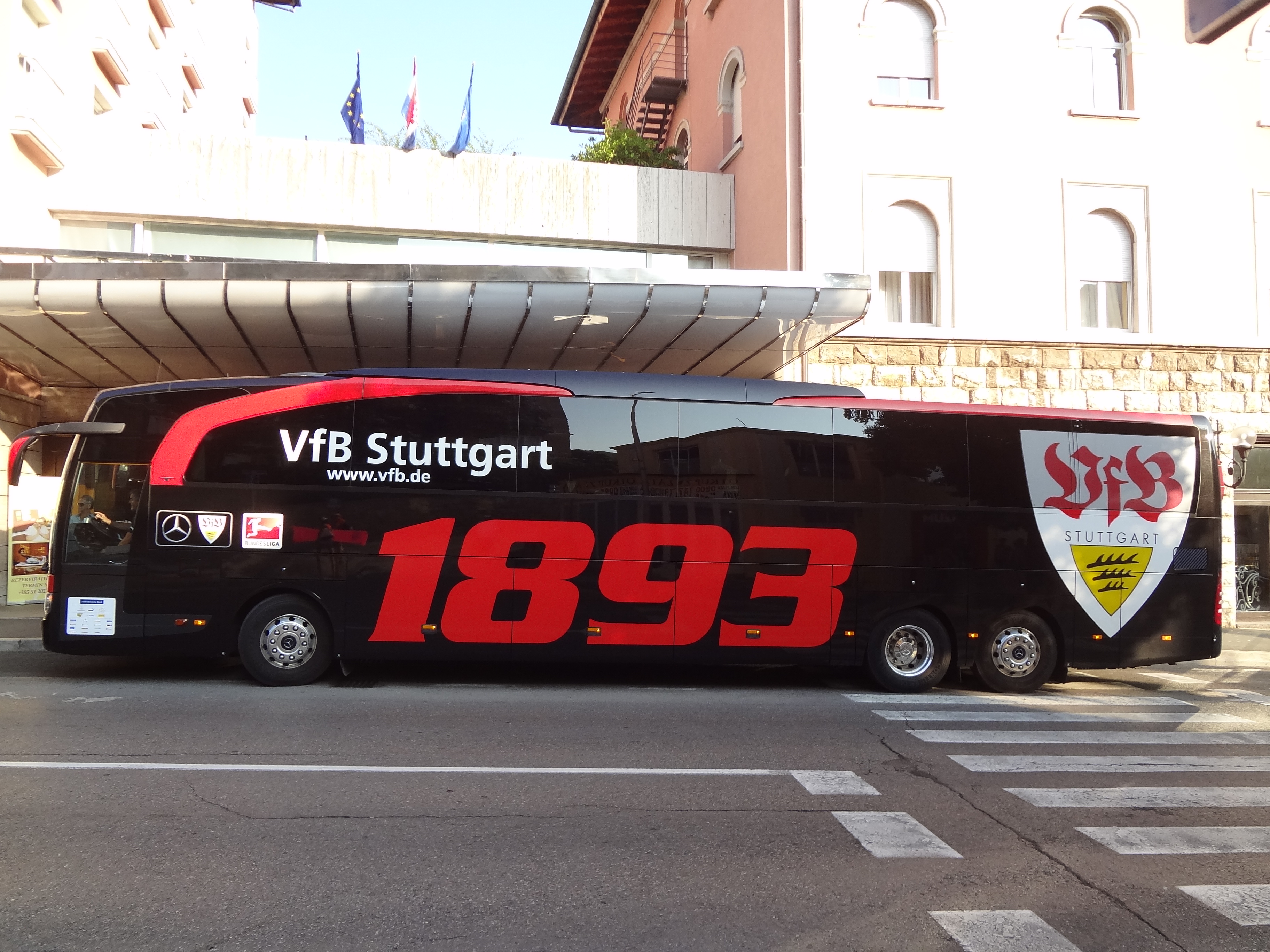 VfB Stuttgart - official team bus (Opatija 2013) Српски (ћирилица): ФК Штутгарт - званични аутобус клуба (Опатија 2013)